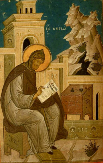 Illustration of Ephrem the Syrian, from a 16th-century Russian ms. of the Slavonic translation of John Climacus and Ephrem's Homilies (Лествицы и Паренесиса Ефрема Сирина )